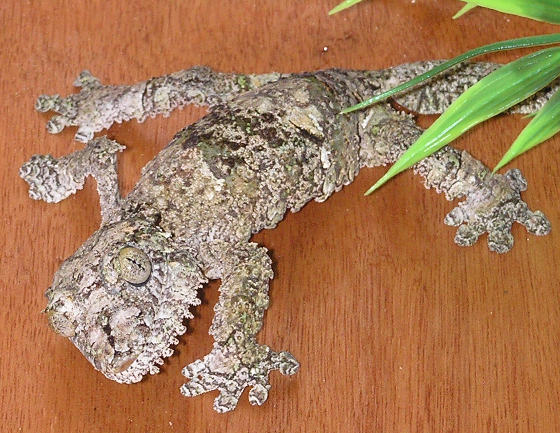 А gecko Uroplatus sameiti.